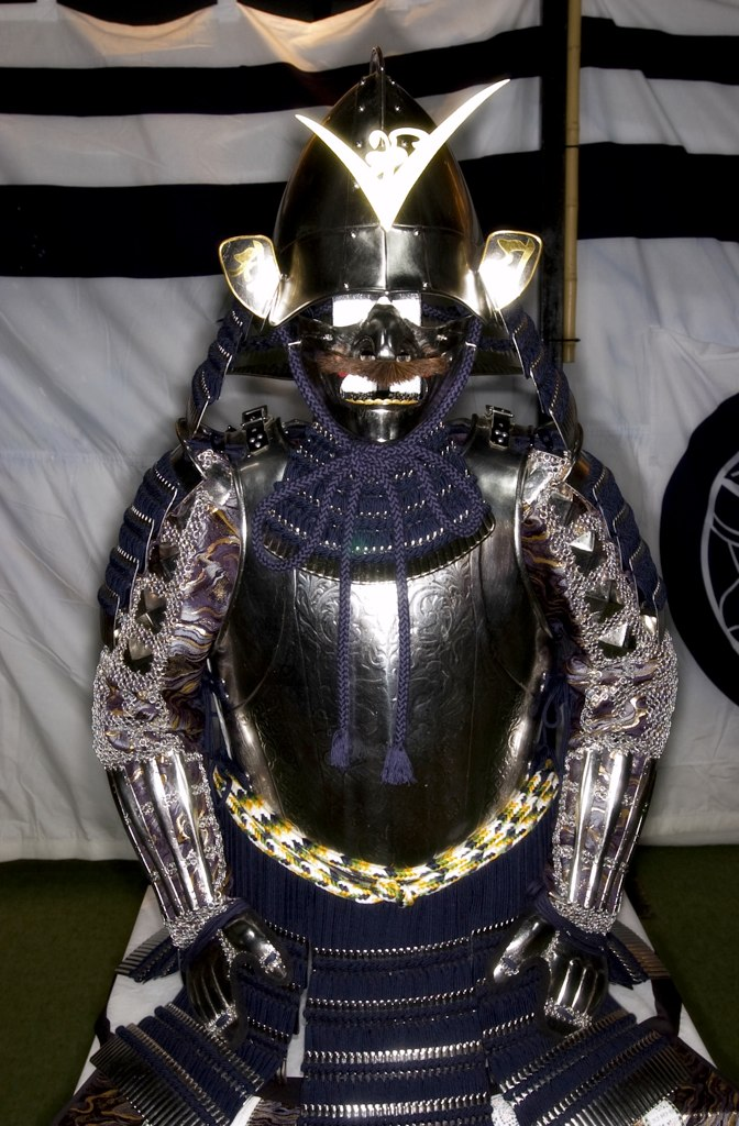 Uesugi Kenshin armor